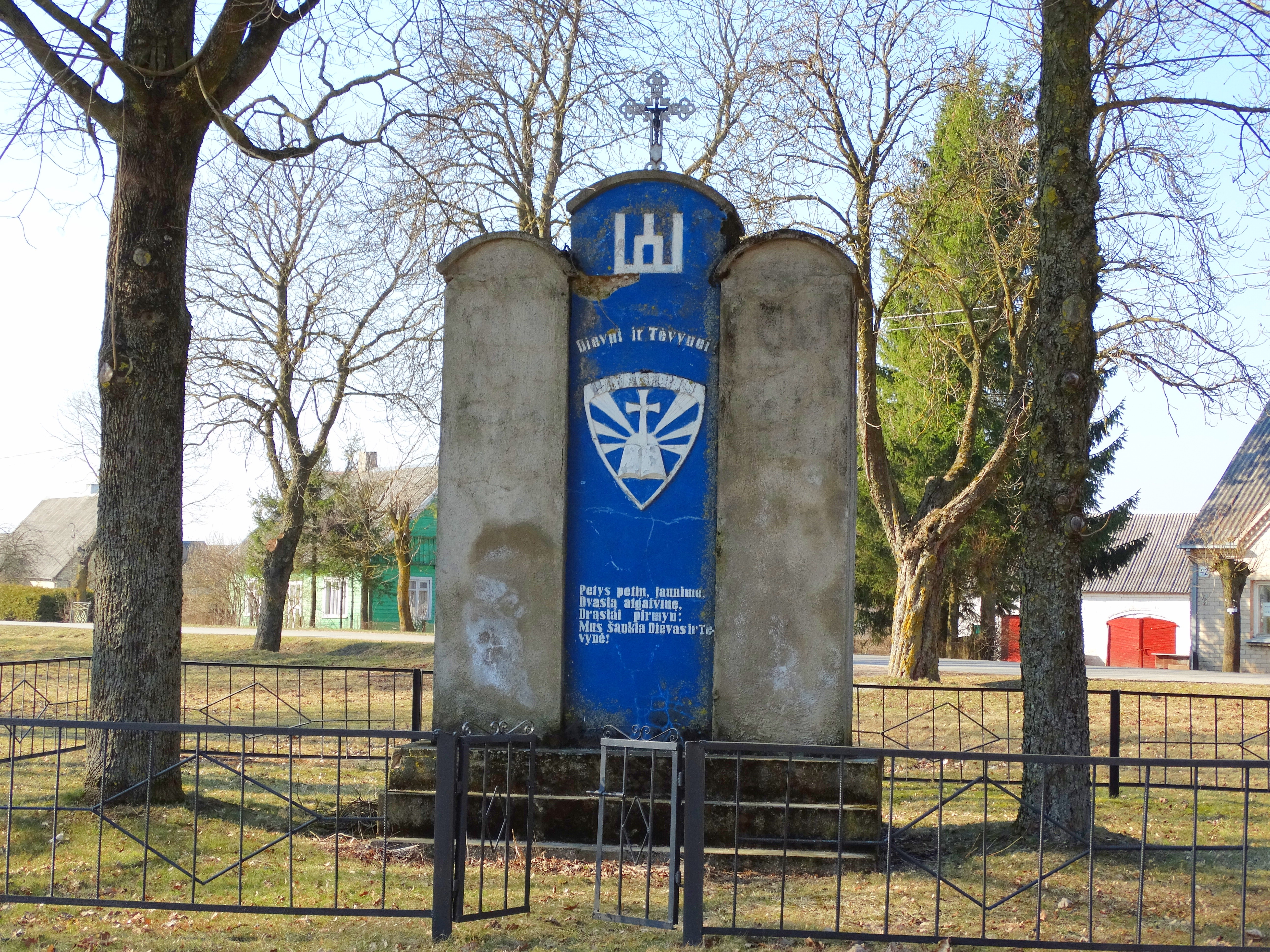 Monument, Šiupyliai, Šiauliai district, Lithuania